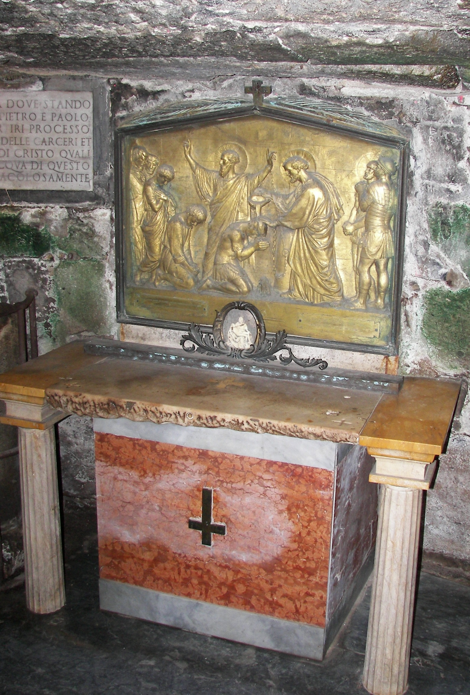 Photo by User:Evadb (en: wiki) .